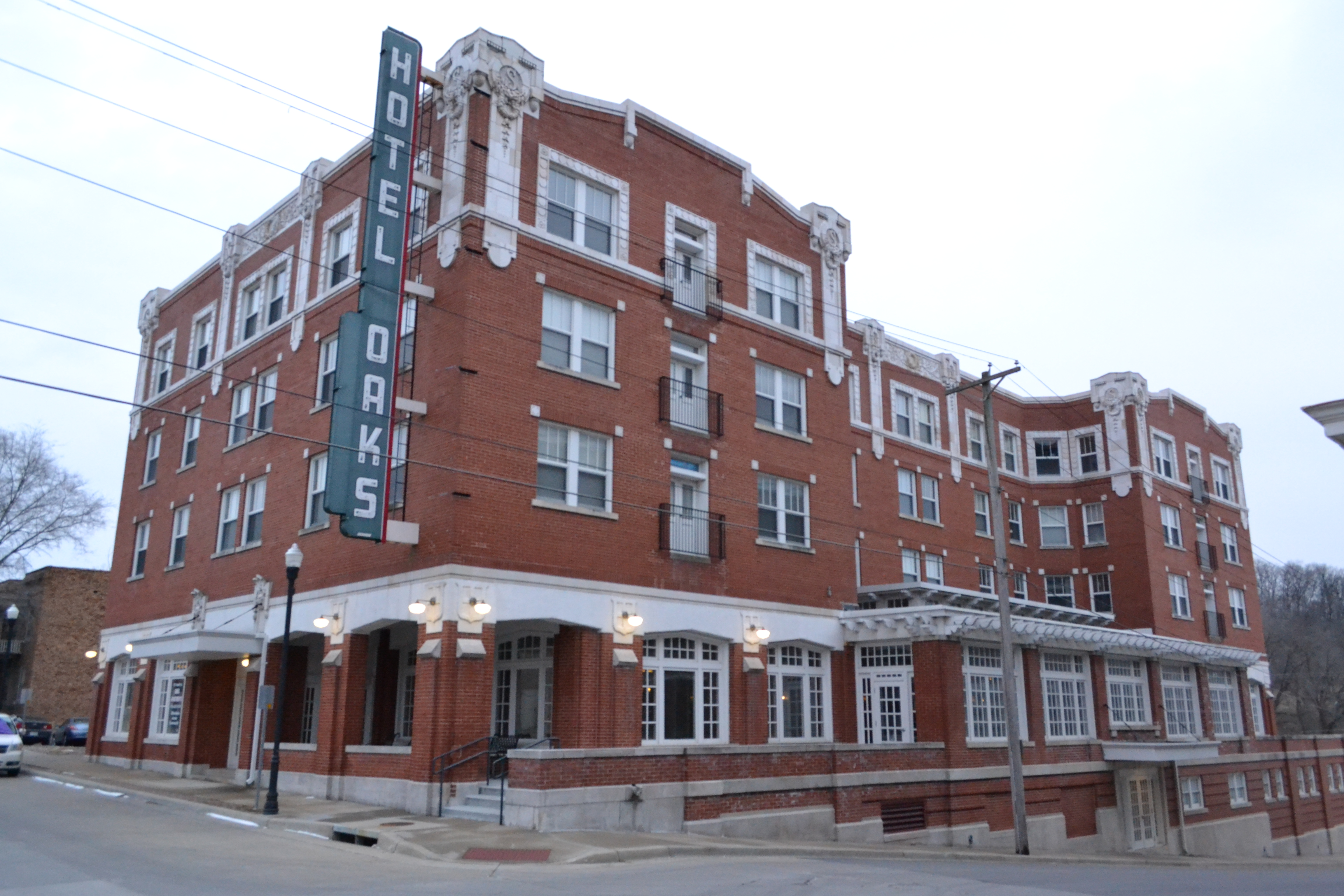 The Hotel Oaks in Excelsior Springs, Missouri. Part of the Excelsior Springs Hall of Waters Commercial West Historic District